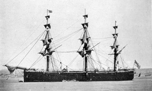 British ironclad battleship HMS Caledonia.